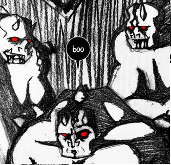 a picture of the demons that appear in the webcomic Prayer For Ruin